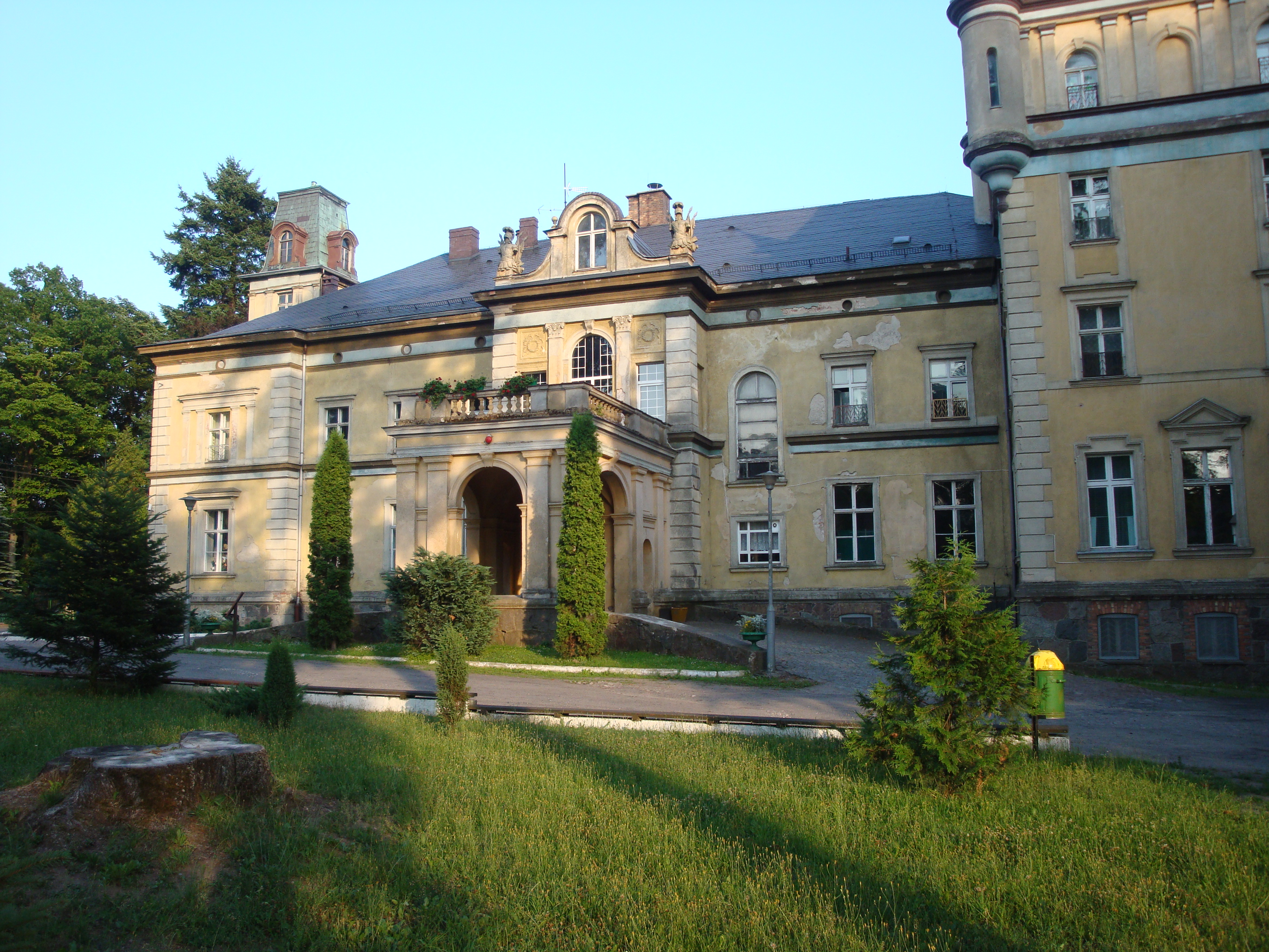 Damnica-village in Słupsk County, Poland. Palace, presently school